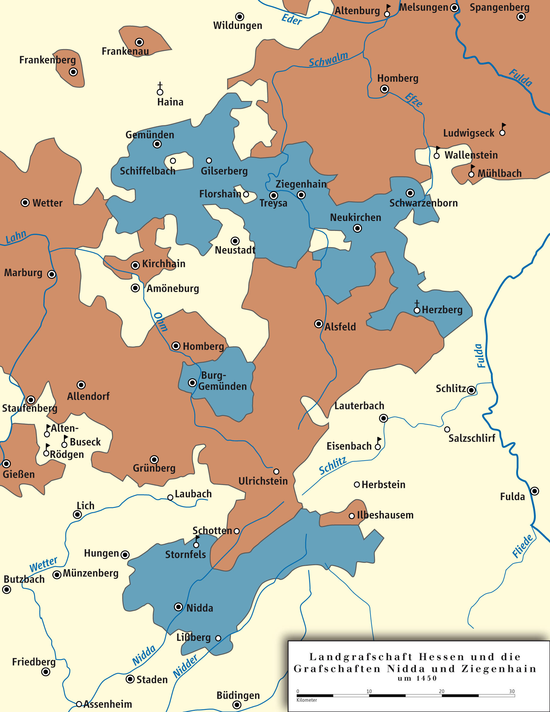 Landgraviat of Hesse and the Counties of Ziegenhain and Nidda, 1450